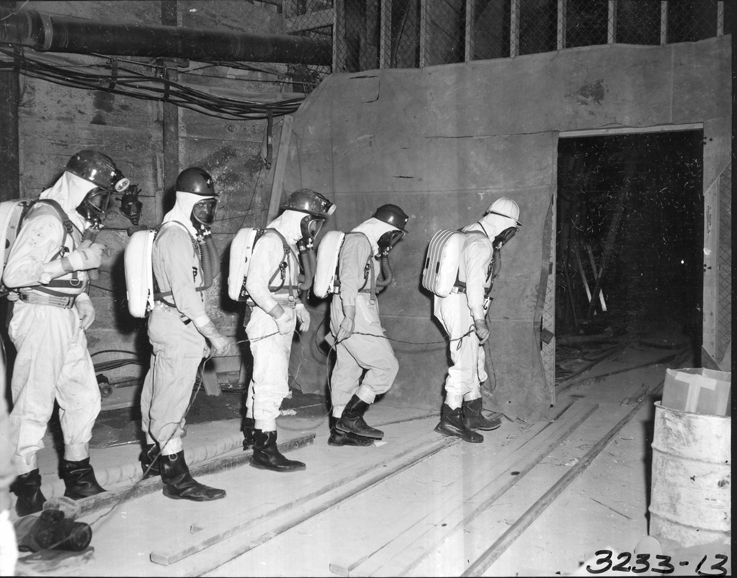 Operation Mandrel. Test Mint Leaf. Nevada Test Site, Area 12. Reentry team, U12t Tunnel, 1970 (photograph 3233-13, on file at the Nuclear Testing Archive, Las Vegas).